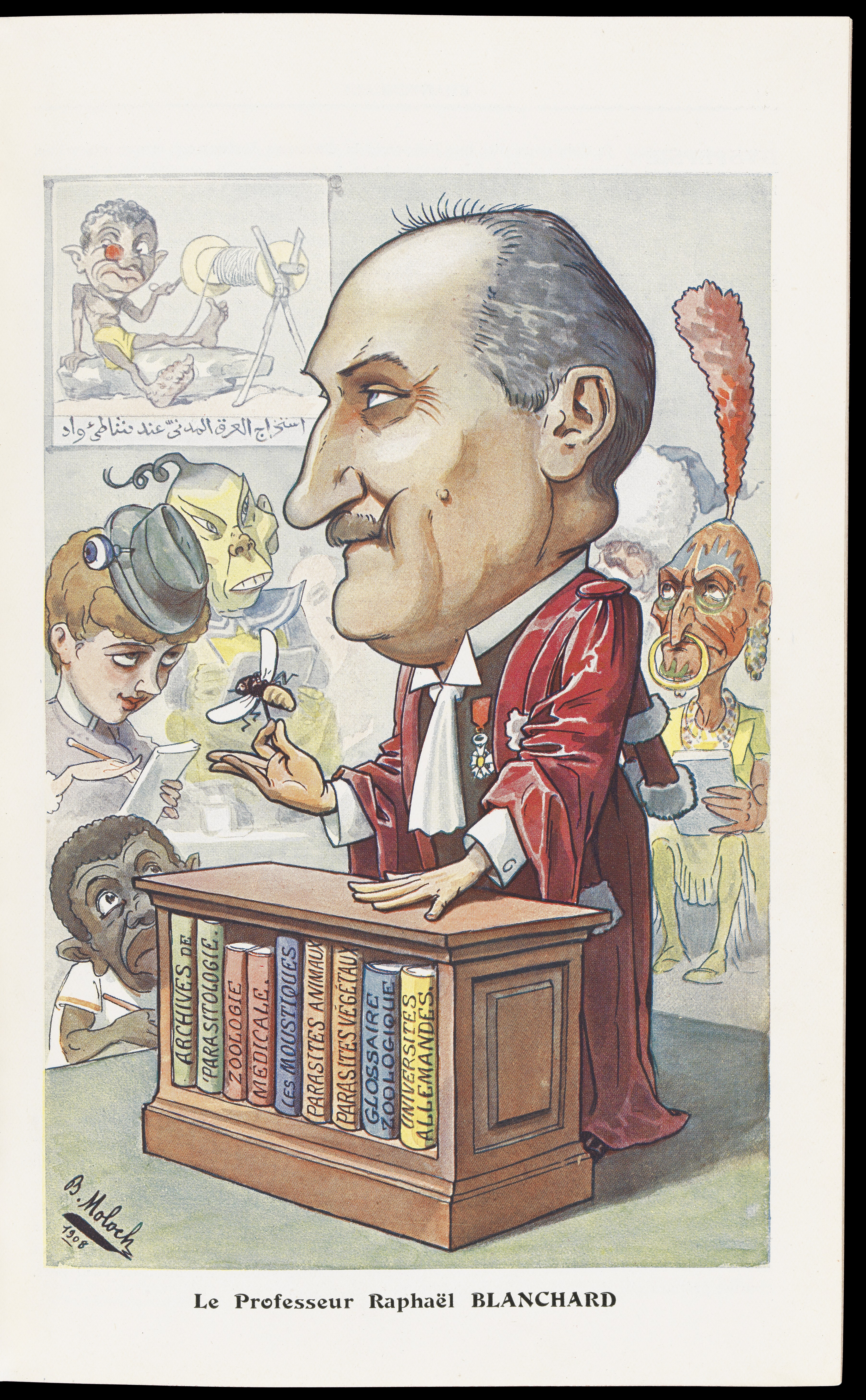 Full page caricature of Raphael Blanchard (Raphaël Anatole Émile), 1857-1919. by B. Moloch. General Collections Keywords: B. Moloch